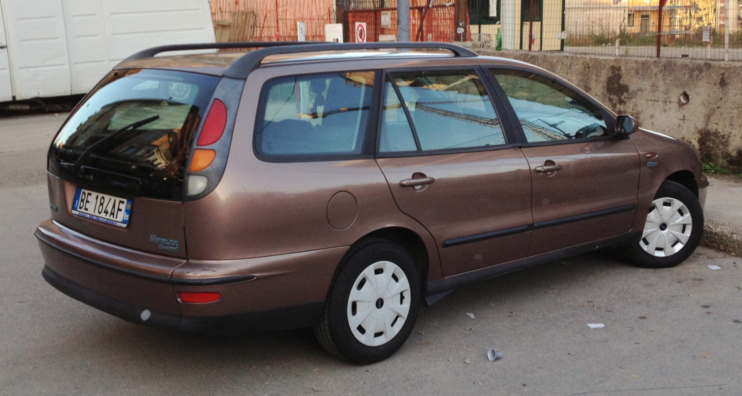 Fiat Marea Weekend.